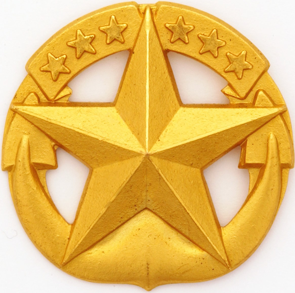 The United States Navy Command at Sea symbol is a large gold five point star centered, with 6 small stars on a banner left and right of the top point of the five point center star. This representing the first six United States Navy ships. All set upon an anchor of command.